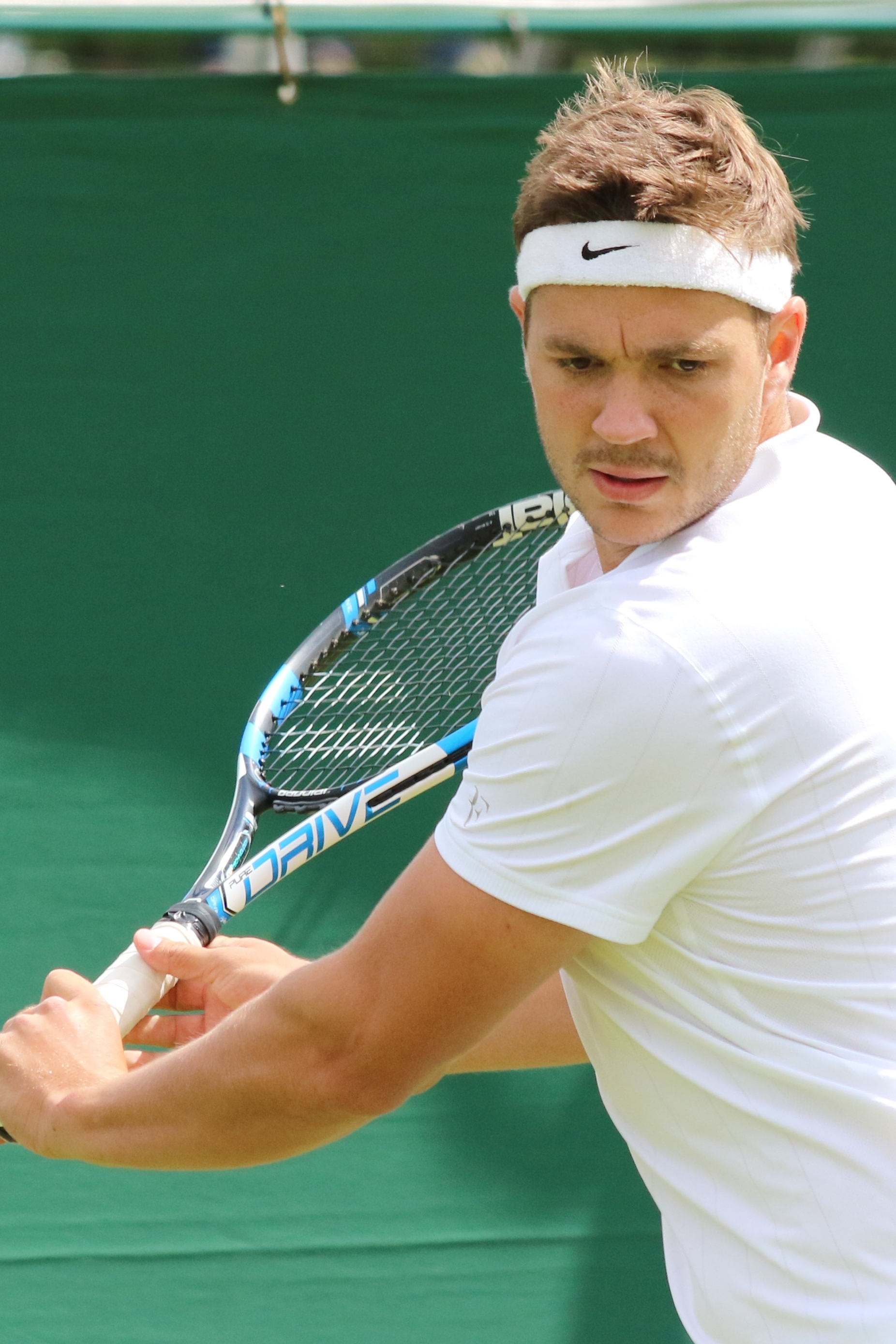 Willis WMQ16 (5)